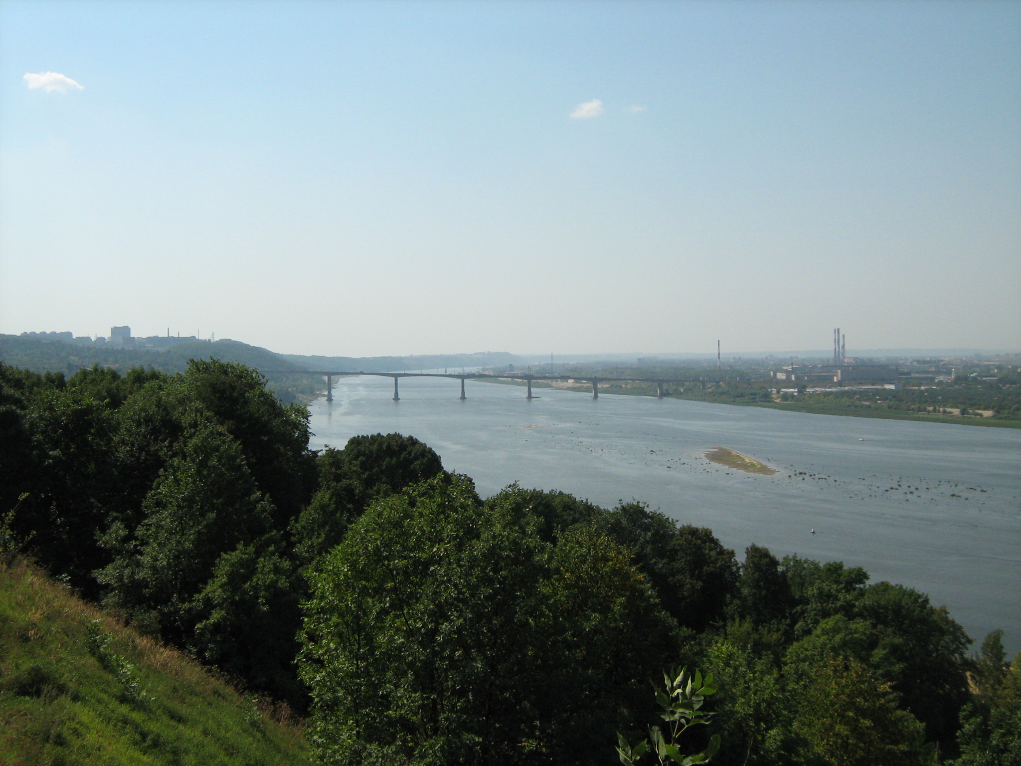 Looking south from the Switzerland Park in Nizhny Novgorod. The Myza Bridge connects the right, high side of the Oka (on the left in the picture) with the left, low side (on the right in the picture).